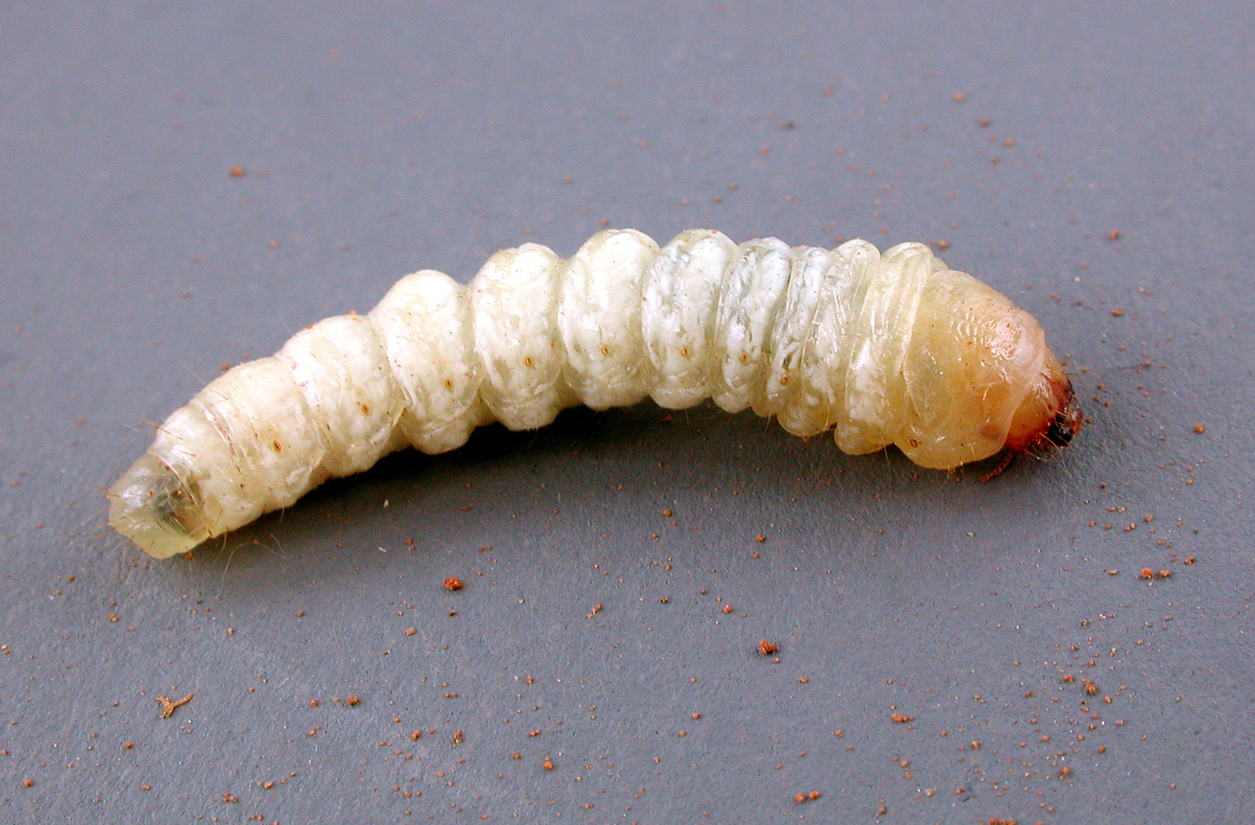 Synemon plana (larvae), Golden sun mothLarvae extracted from soil under native grassland, Canberra ACT. Photo credit: David McCleneghan CSIRO